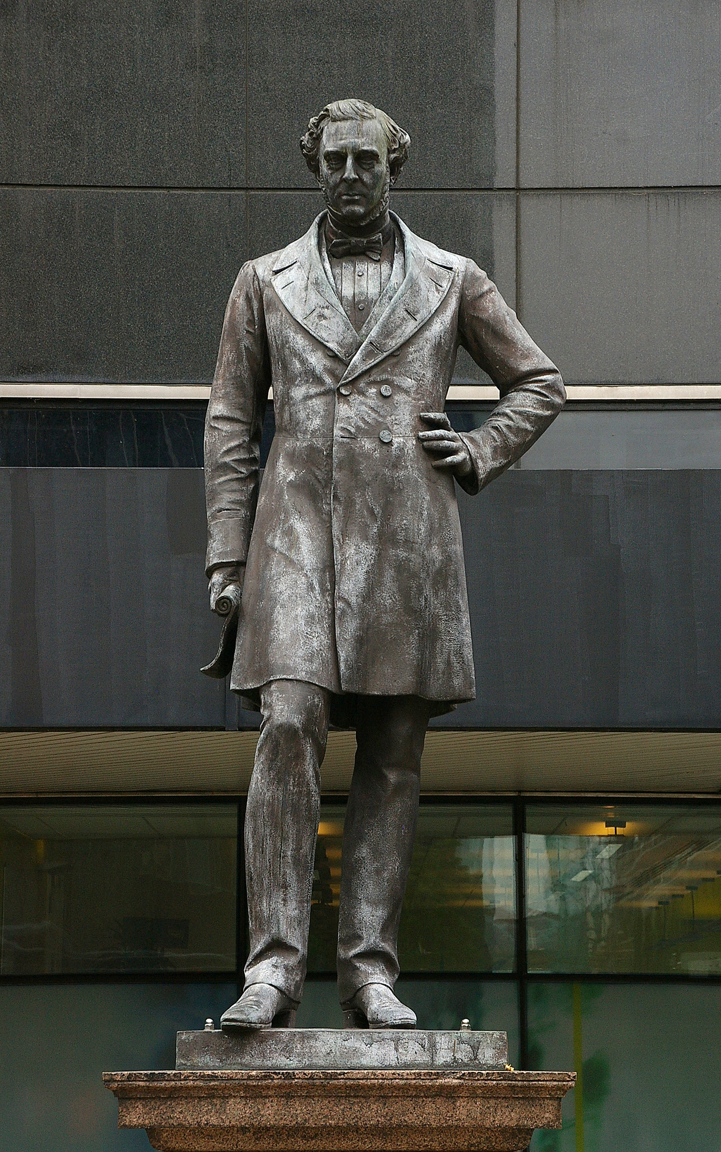 Statue of Robert Stevenson outside London Euston railway station.